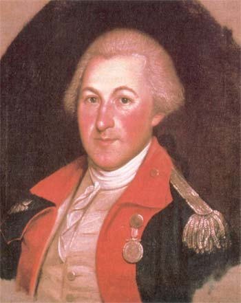 John Eager Howard (1752-1827), heroes of the battle of Cowpens, oil by Charles Willson Peale in 1782, Independence National Historical Park.